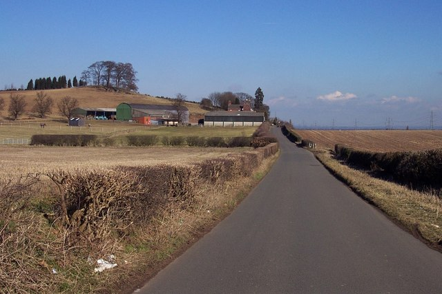 Knowle Farm. Probably a Norman Motte and Bailey Manor lying next to Ryknield Street Roman road skirting Lichfield.